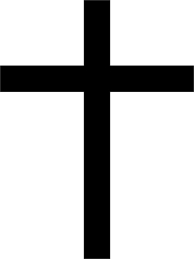 I made it myself in CorelDRAW 12 for article Крест (Cross) in Russian Wikipedia.